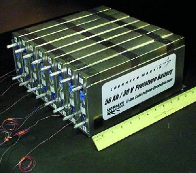 NASA Prototype Lithium-Ion Polymer Battery 30 volts, 50 AH Battery 8 Cells 1500 Wh – 20 kg total mass – 75 Whr/kg 7.8 liter vol – 190 Wh/l